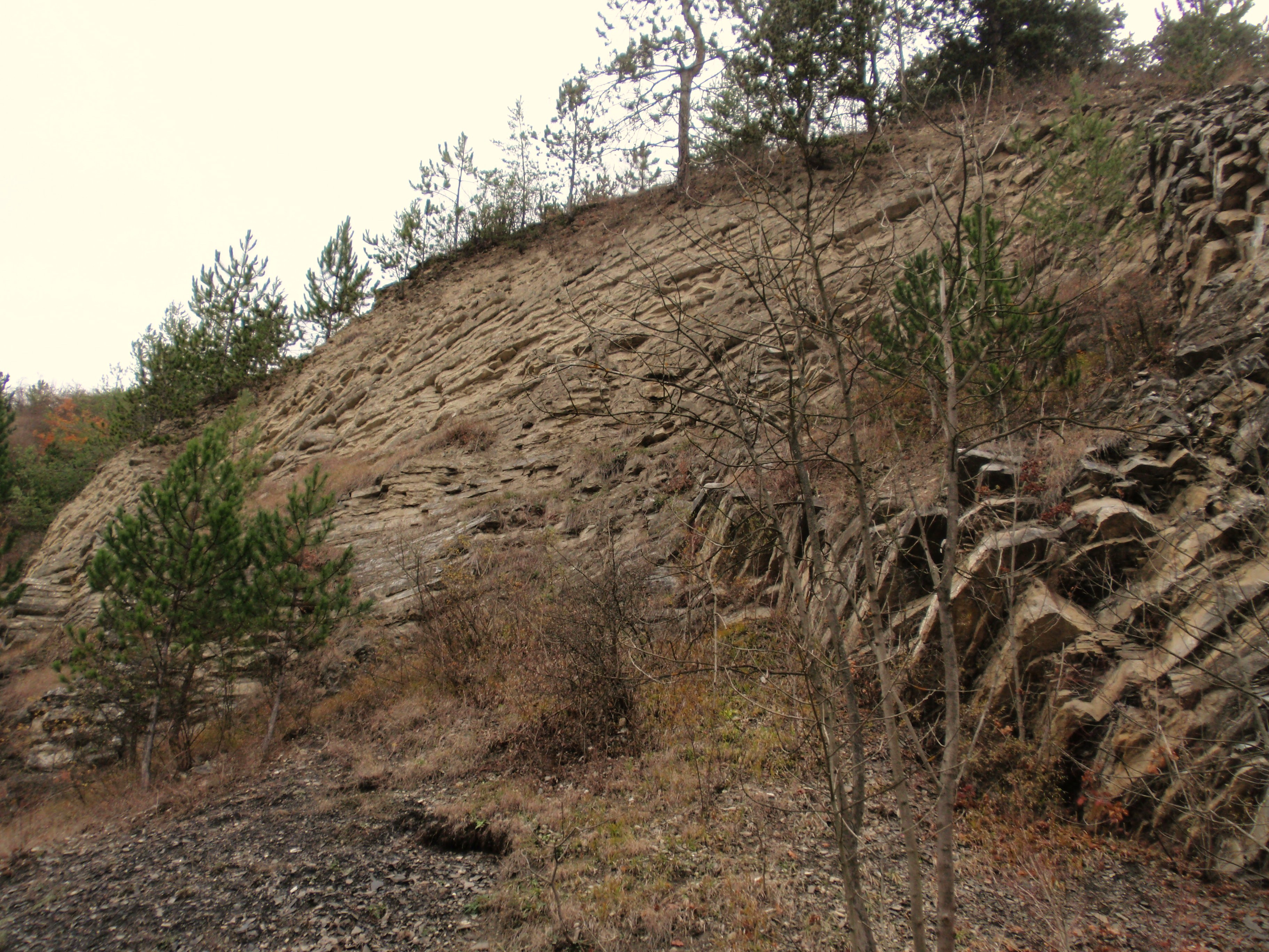 National natural monument Černé rokle in Prague and Prague-West District, Czech Republic